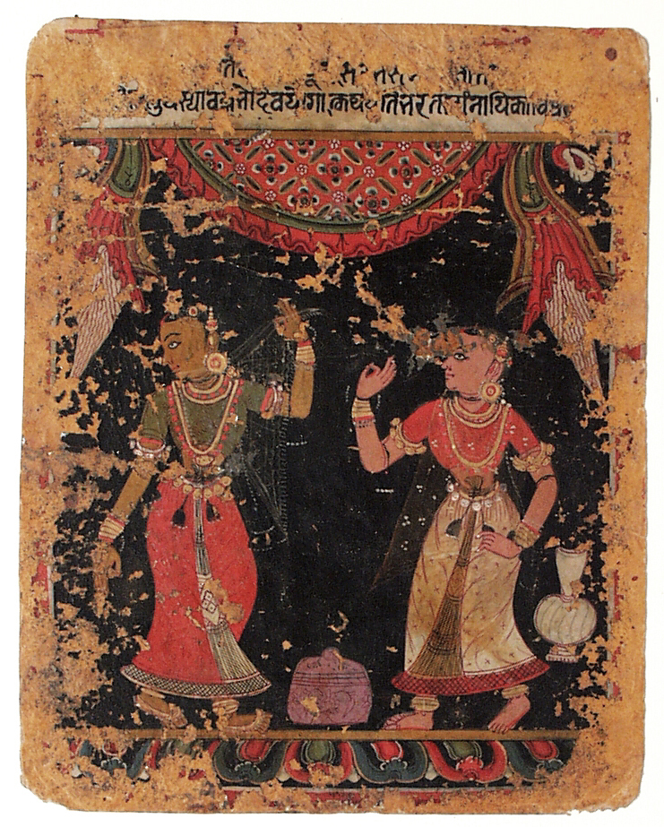 Nepal, Bhaktapur (?), circa 1650 Books Opaque watercolor, metallic paint, and ink on paper Museum Acquisition Fund (M.73.2.5) South and Southeast Asian Art